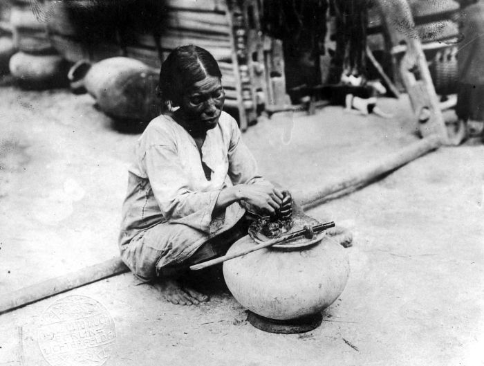 A Batak woman busy with dyeing textiles with indigo, Sumatra